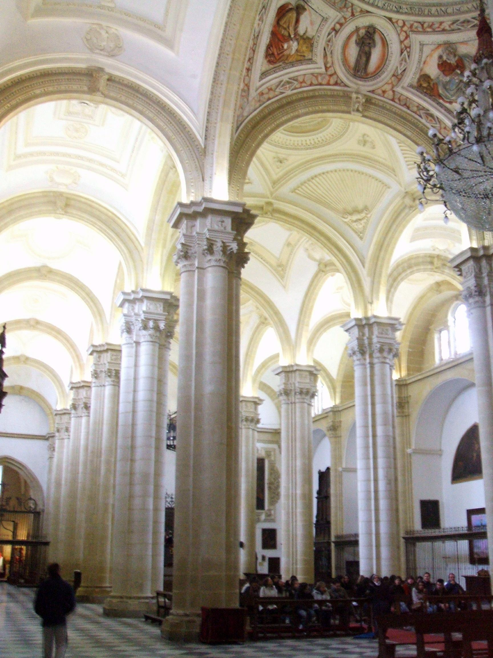 Catedral de Baeza (Jaén, Andalucía, España)